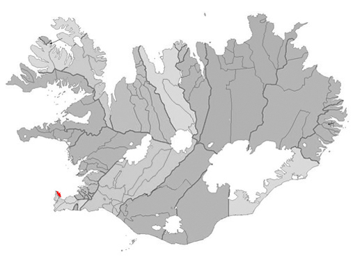 Based on Municipalities of Iceland.png.